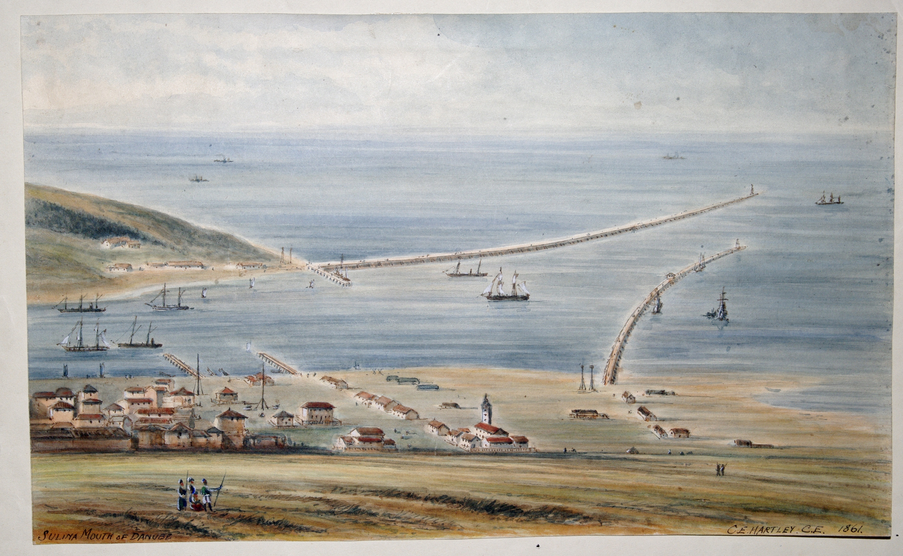 Birdseye View of the Sulina Mouth of the Danube, showing the works of improvement lately carried out under the European Commission of the Danube by Charles A. Hartley, ESQ., C.E., Engineer in Chief to the commission